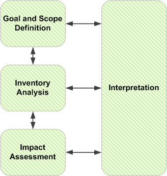 Graphic showing the phases of a Life Cycle Analysis. Arrows indicate that insights gained from one phase can and will influence how other phases are completed.